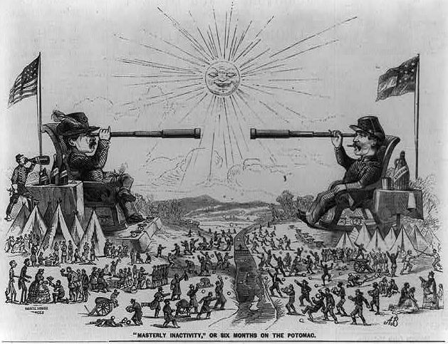 "Masterly inactivity," or six months on the Potomac; caricature of inactivity of Confederate and Union soldiers on both sides of the Potomac River between summer 1861 and winter 1862, published in Frank Leslie's illustrated newspaper, vol. 13 (1862 Feb. 1), p. 176.